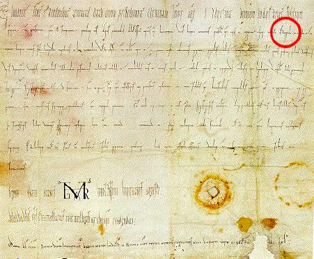 Document written by Otto III (in the year 996). The document concerns a donation of the "territory which is known in the vernacular as Ostarrichi" (regione vulgari vocabulo Ostarrichi), specified as the region of Neuhofen an der Ybbs (in loco Niuuanhova dicto). The word "Ostarrichi", the first known mention of the territory called Austria by this name, is circled in red. A transcript in Latin follows, with the source linked below it.